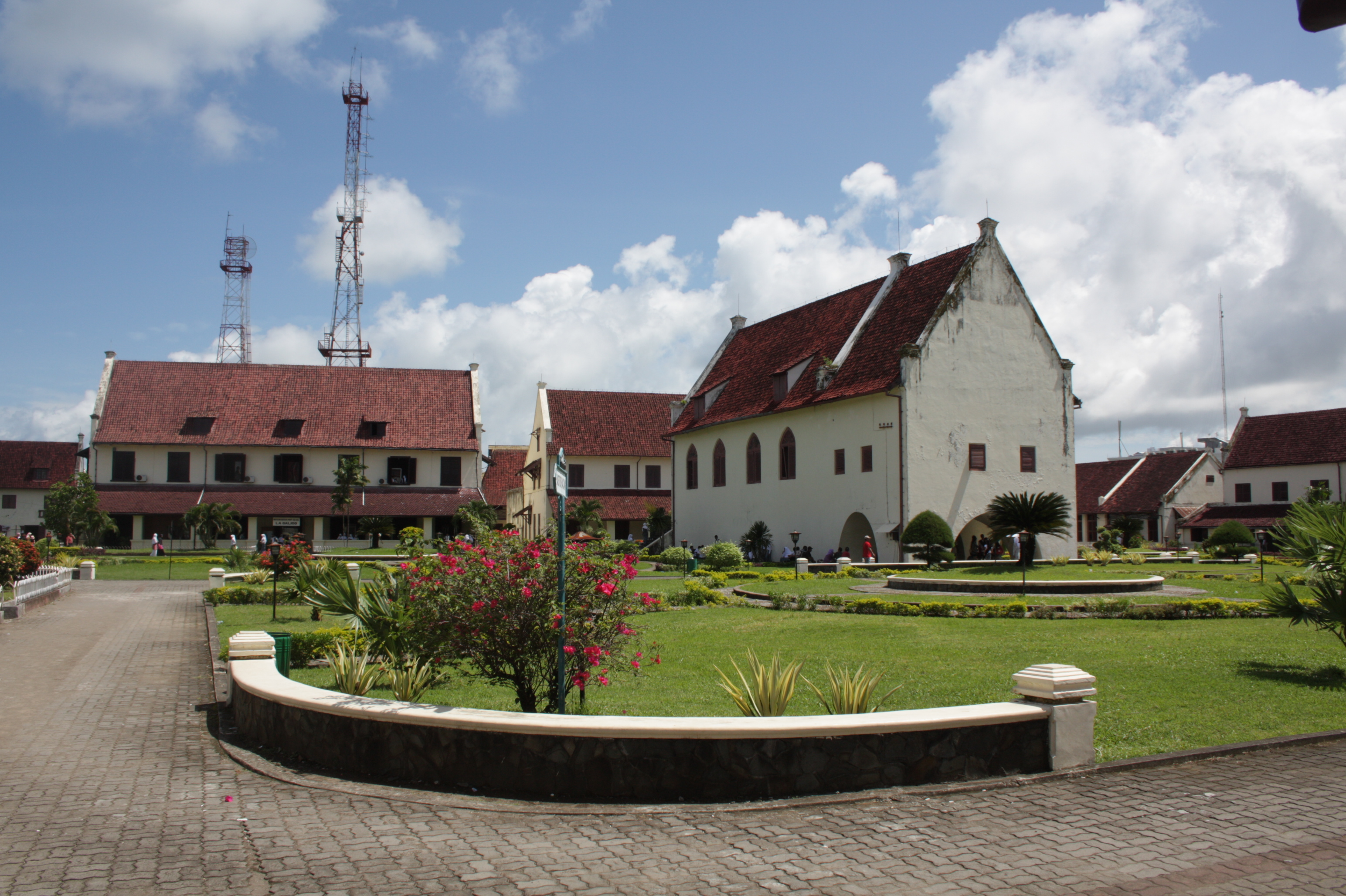 The inside of Fort Rotterdam in Makassar, South Sulawesi, Indonesia.